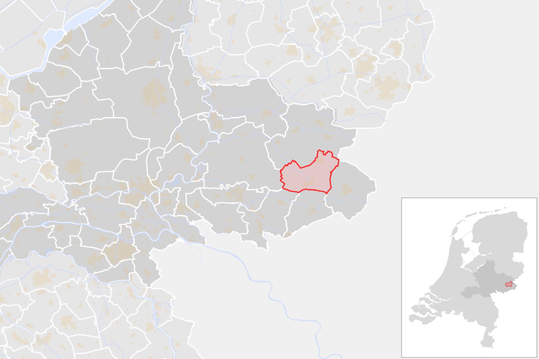 Locator map showing municipality boundary of one of the 390 Dutch municipalities (as of 2016)